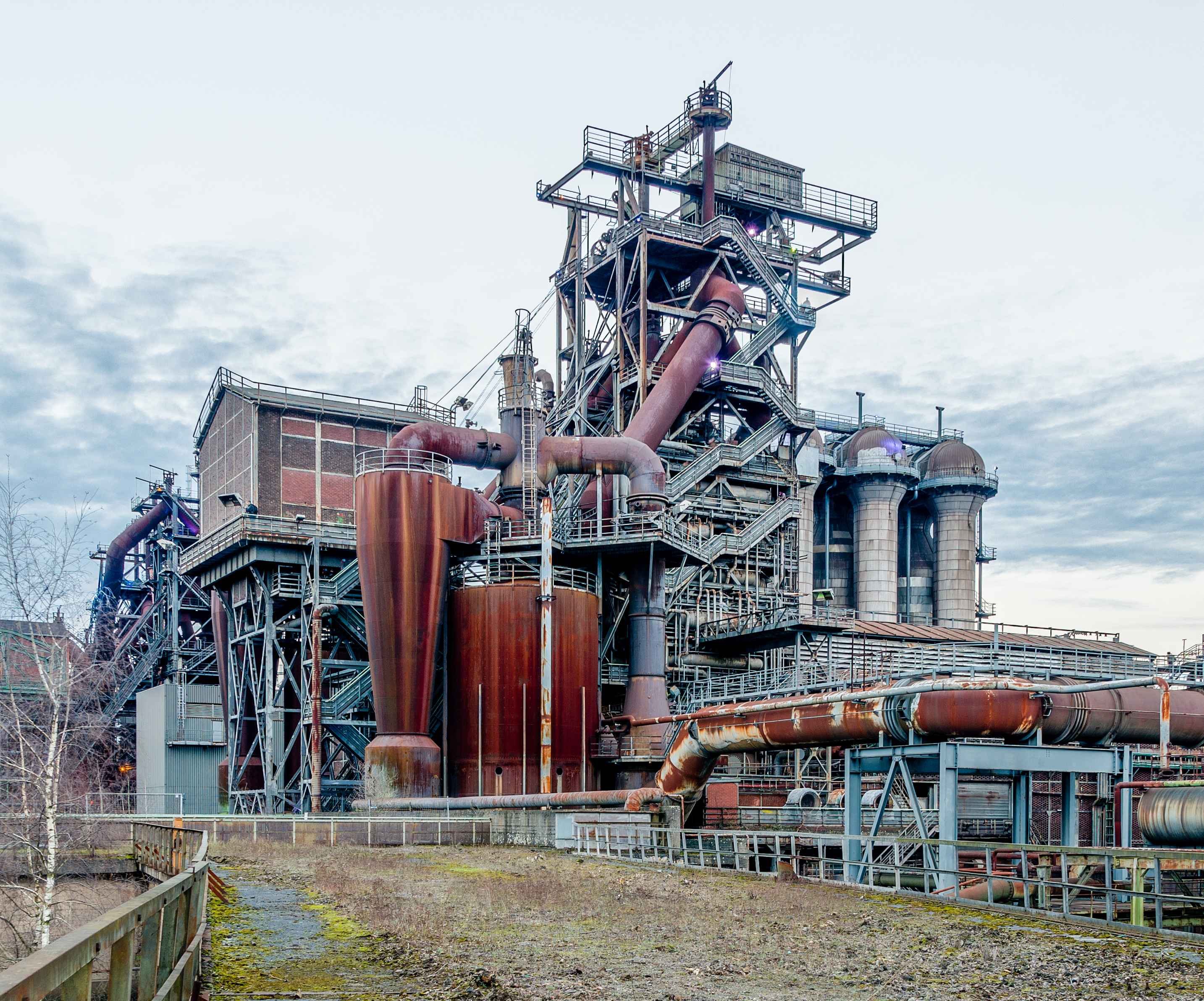 Furnace No 5 at Landscape Park Duisburg North